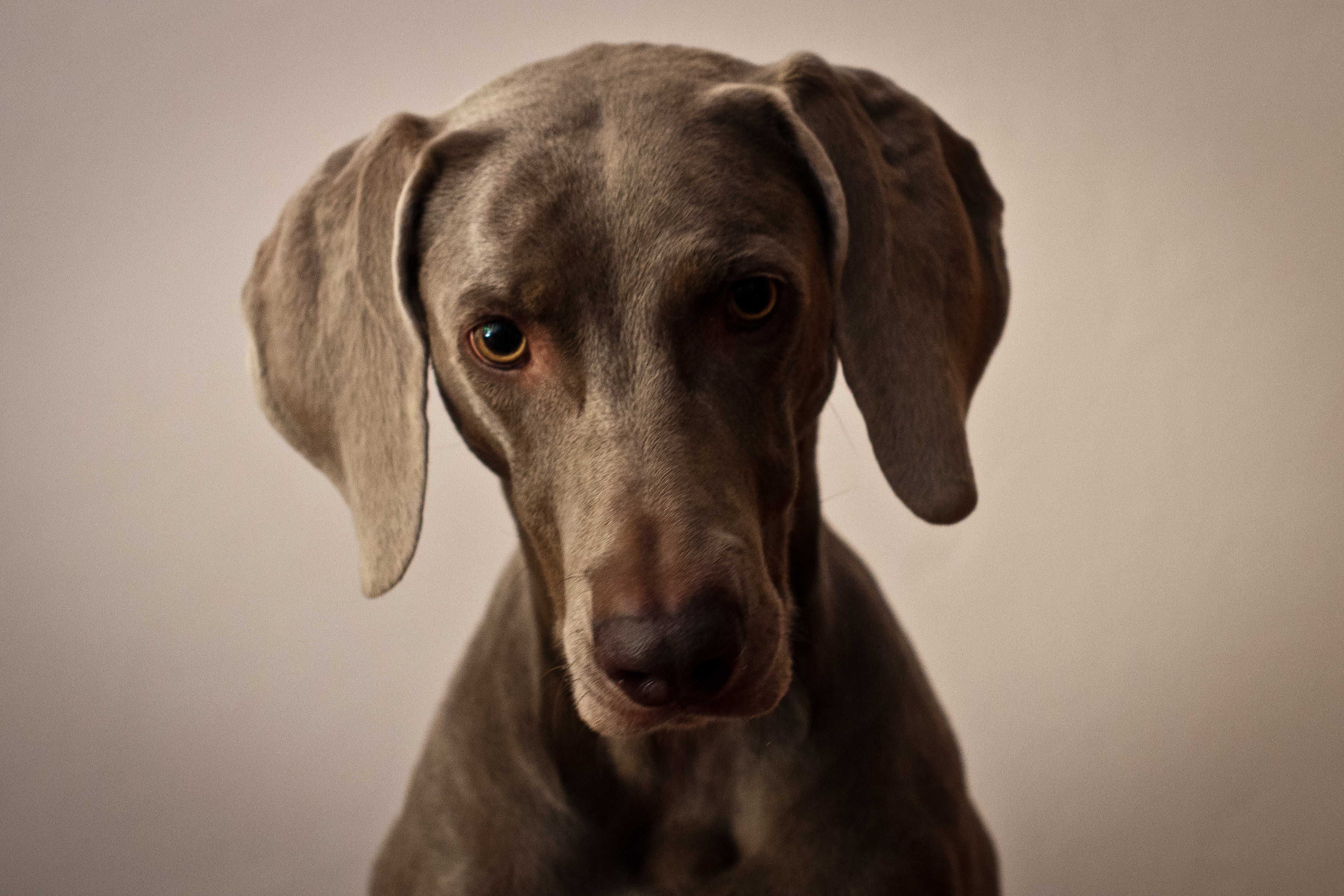 Female Weimaraner face